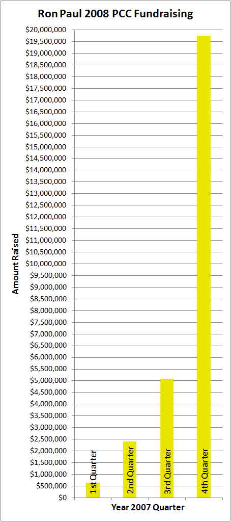 A graph depicting the fundraising efforts of the Ron Paul 2008 PCC during the four quarters of 2007, up to January 1, 2008. Designed by Alexander S. Peak. Updated by timberlax.